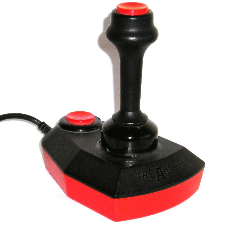 Transparent picture of The Arcade Turbo digital joystick. Manufactured by Suzo International, Rotterdam, The Netherlands. Joystick was suitable for almost every 8 and 16-bit computersystem as the Atari 8-bit systems, Atari ST, Commodore 64, 128, Commodore Amiga MSX etc. The Arcade Turbo digital joystick. Manufactured by Suzo International, Rotterdam, The Netherlands.